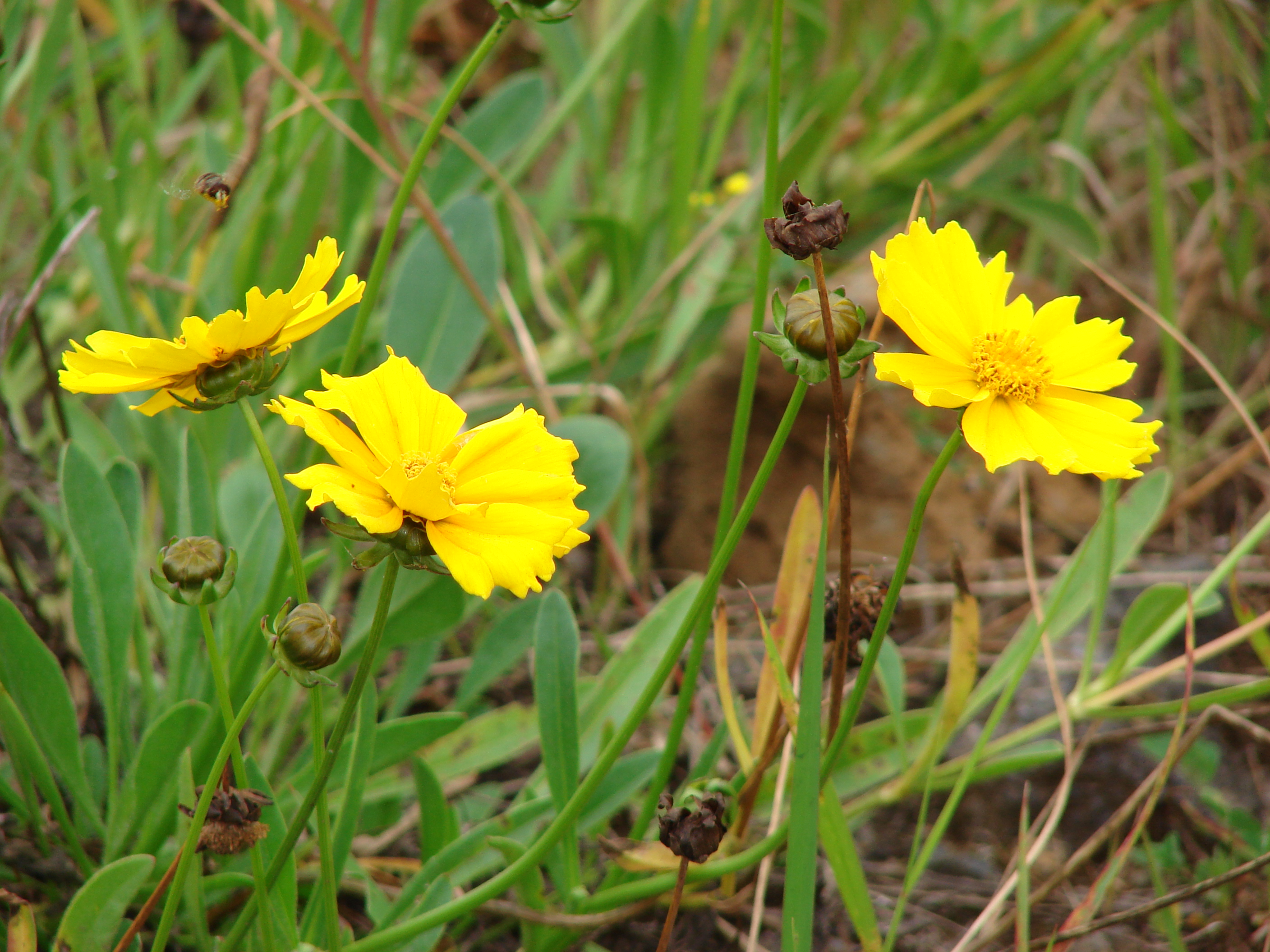 Coreopsis lanceolata (flowers). Location: Maui, Kula